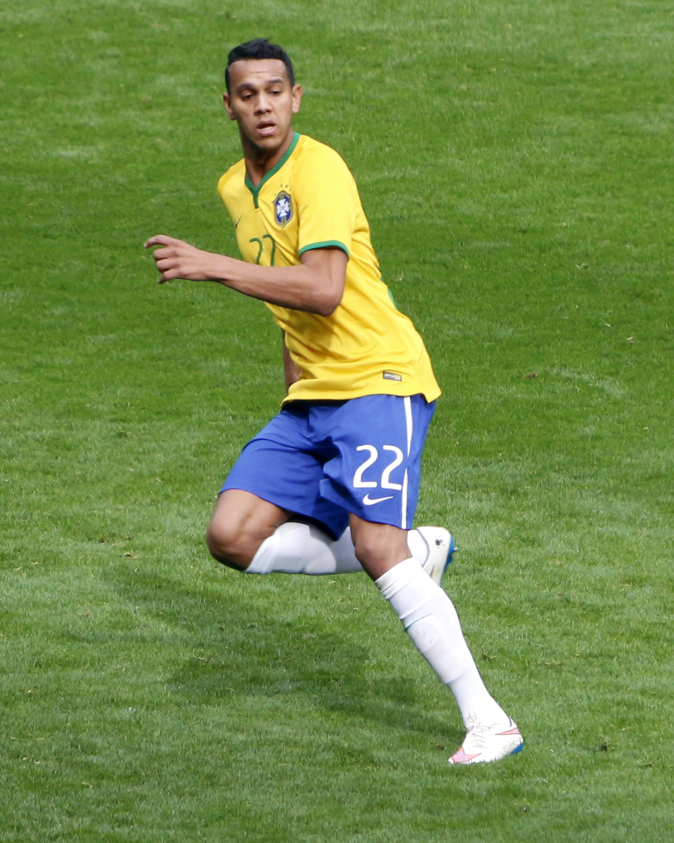 Souza Eugenio Mena Pedro Hernández Brazil vs Chile, International Friendly, 29th March, 2015, Emirates Stadium, London